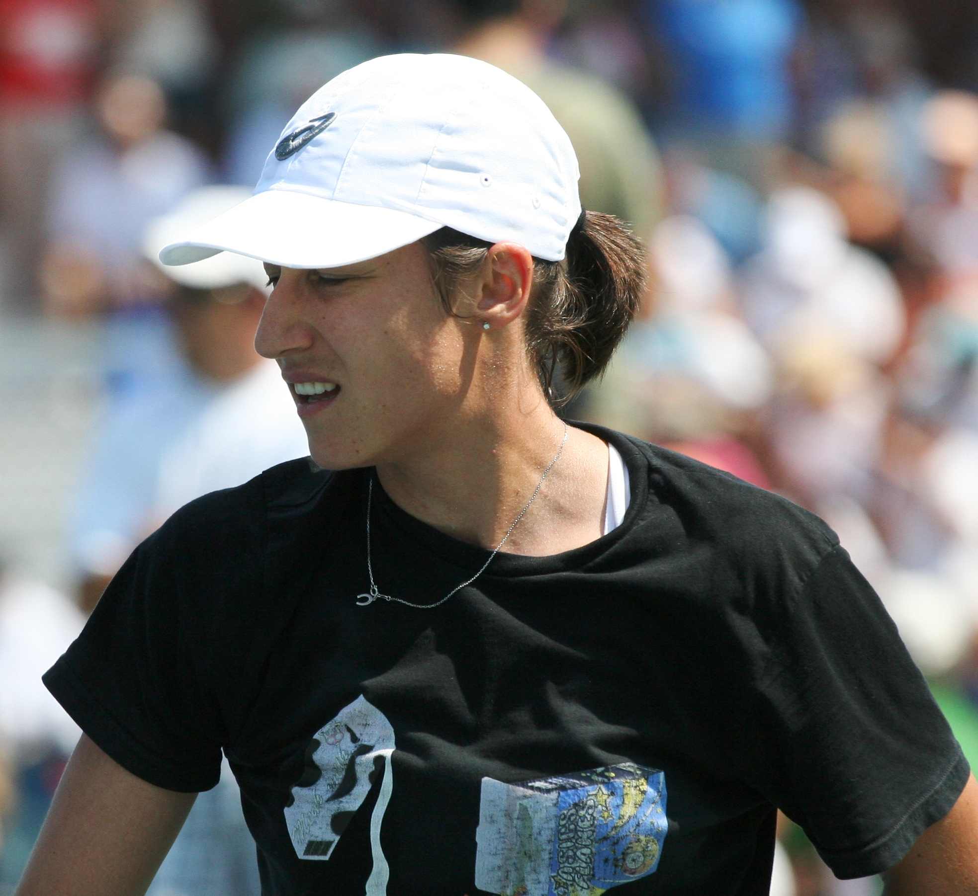 U.S. Open practice Thursday, Sept. 2, 2010